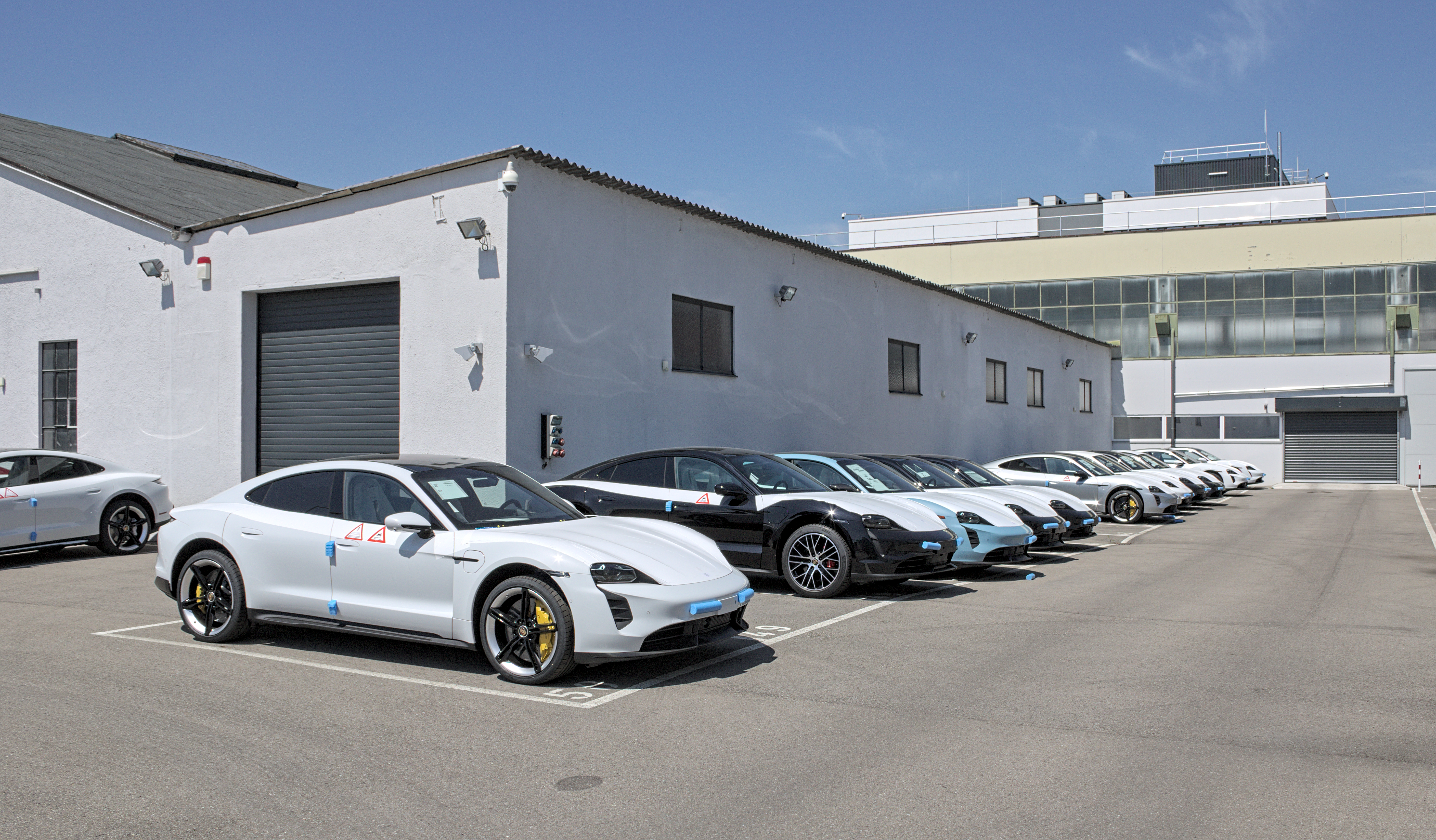 Porsche_Taycan in Stuttgart